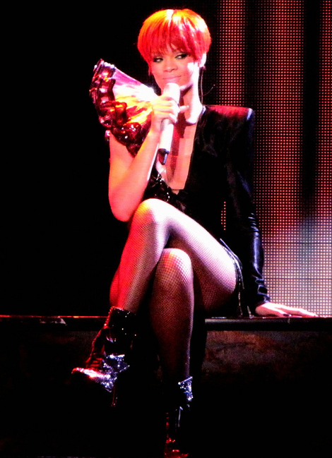 Rihanna performing in the Last Girl on Earth Tour in August